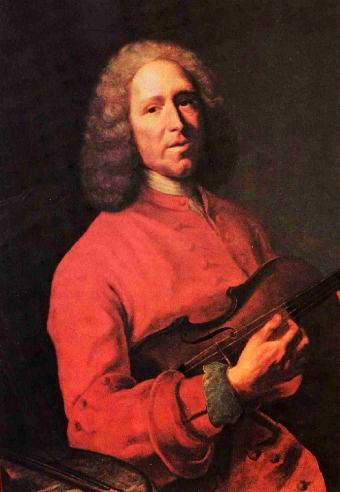 Depicted person: Jean-Philippe Rameau (1683–1764), French composer and music theorist of the Baroque era